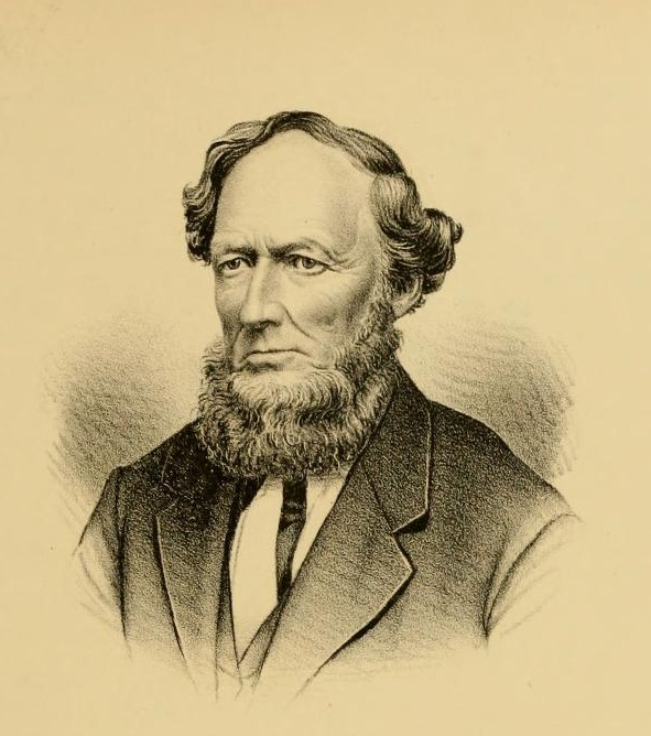 Portrait of New York state assemblyman Avery W. Severance (1819-1874)